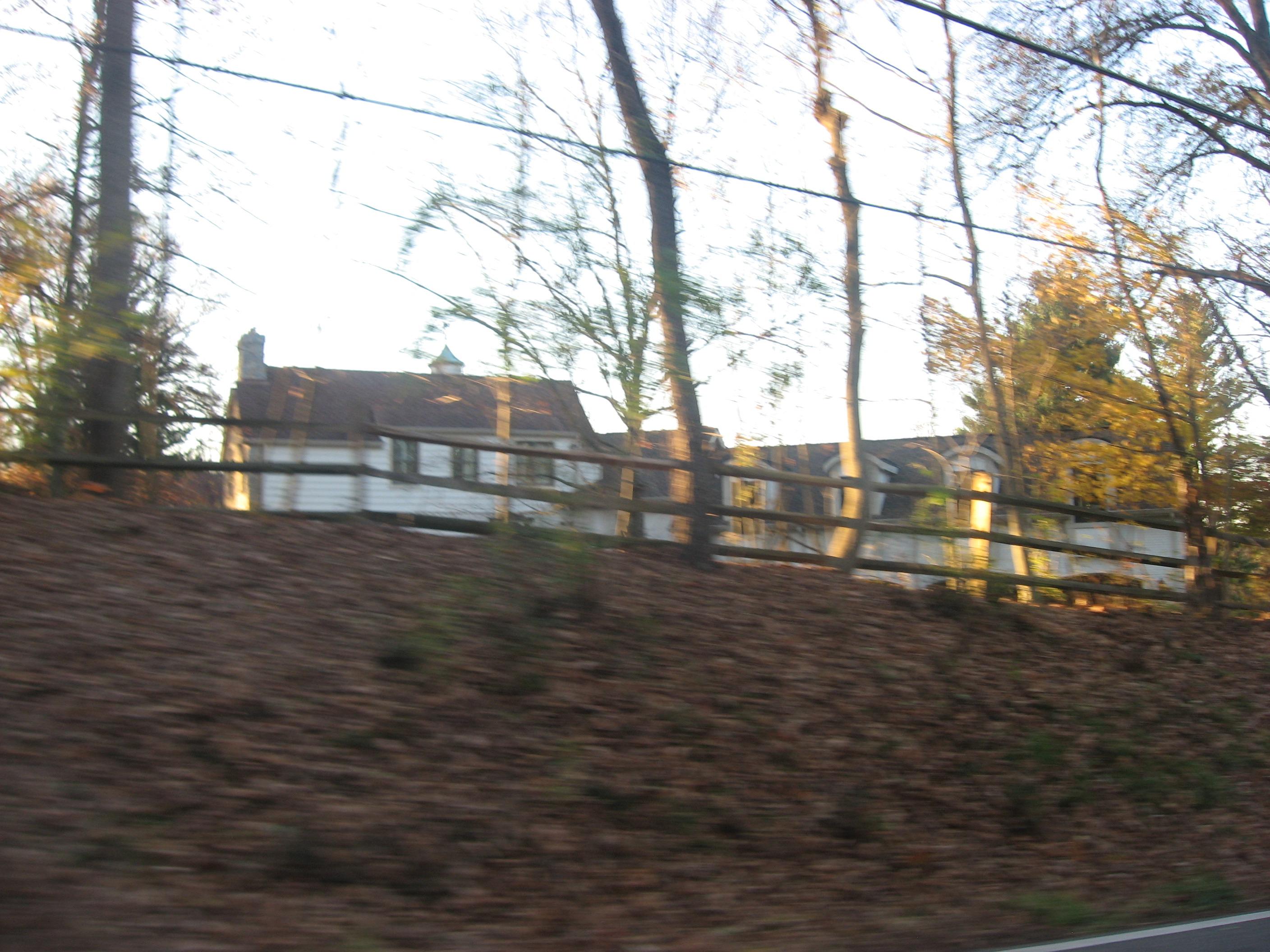 Roadside view of Sunny Knolls, the Gordon E. Pape House, located at 8725 Blome Road in Indian Hill, Ohio, United States. Built in 1933, it is listed on the National Register of Historic Places.